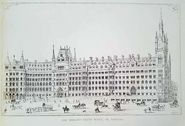 A pen and ink drawing of the hotel at the time of opening